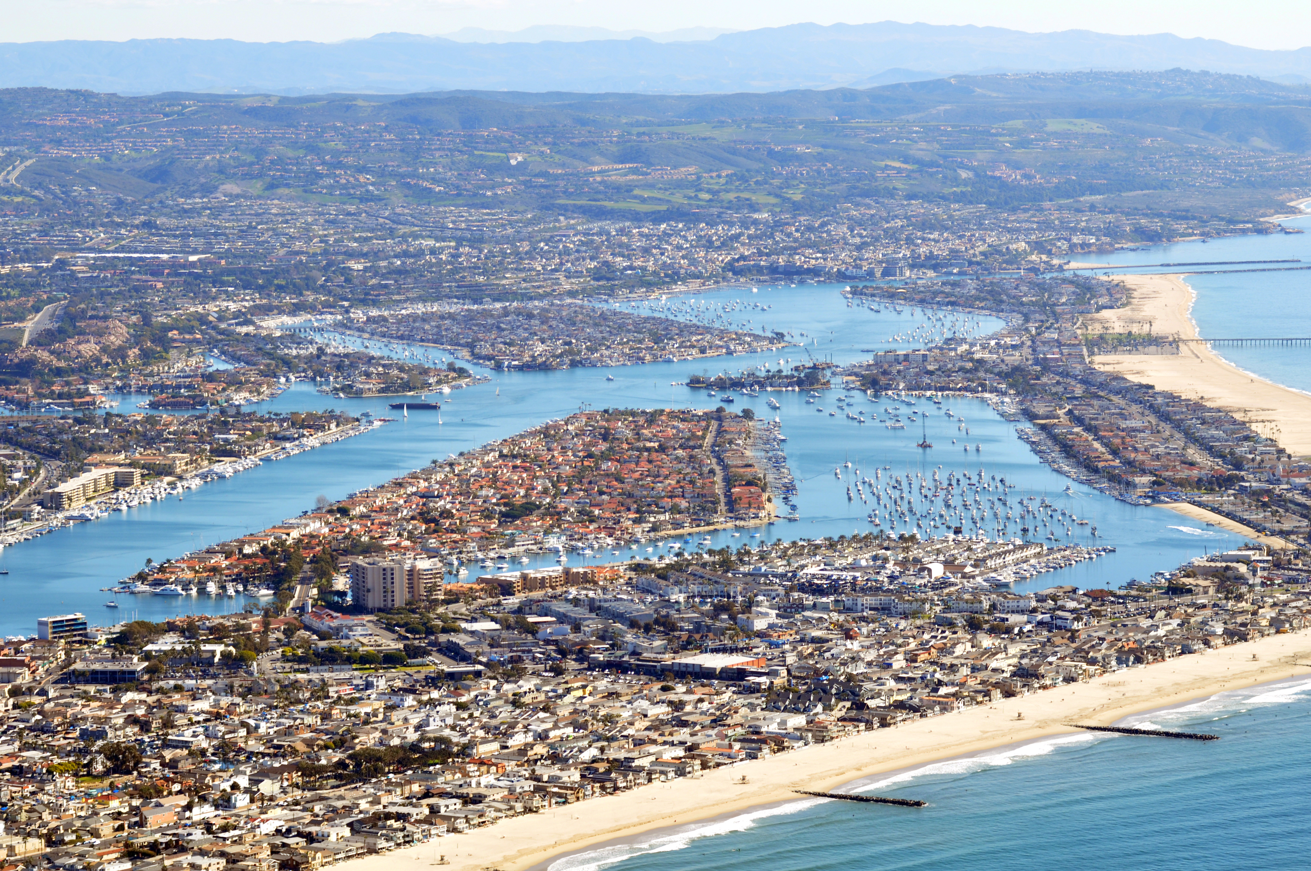 Newport Beach 2013 Photo D Ramey Logan, must publish photographer credit if used outside of wikipedia